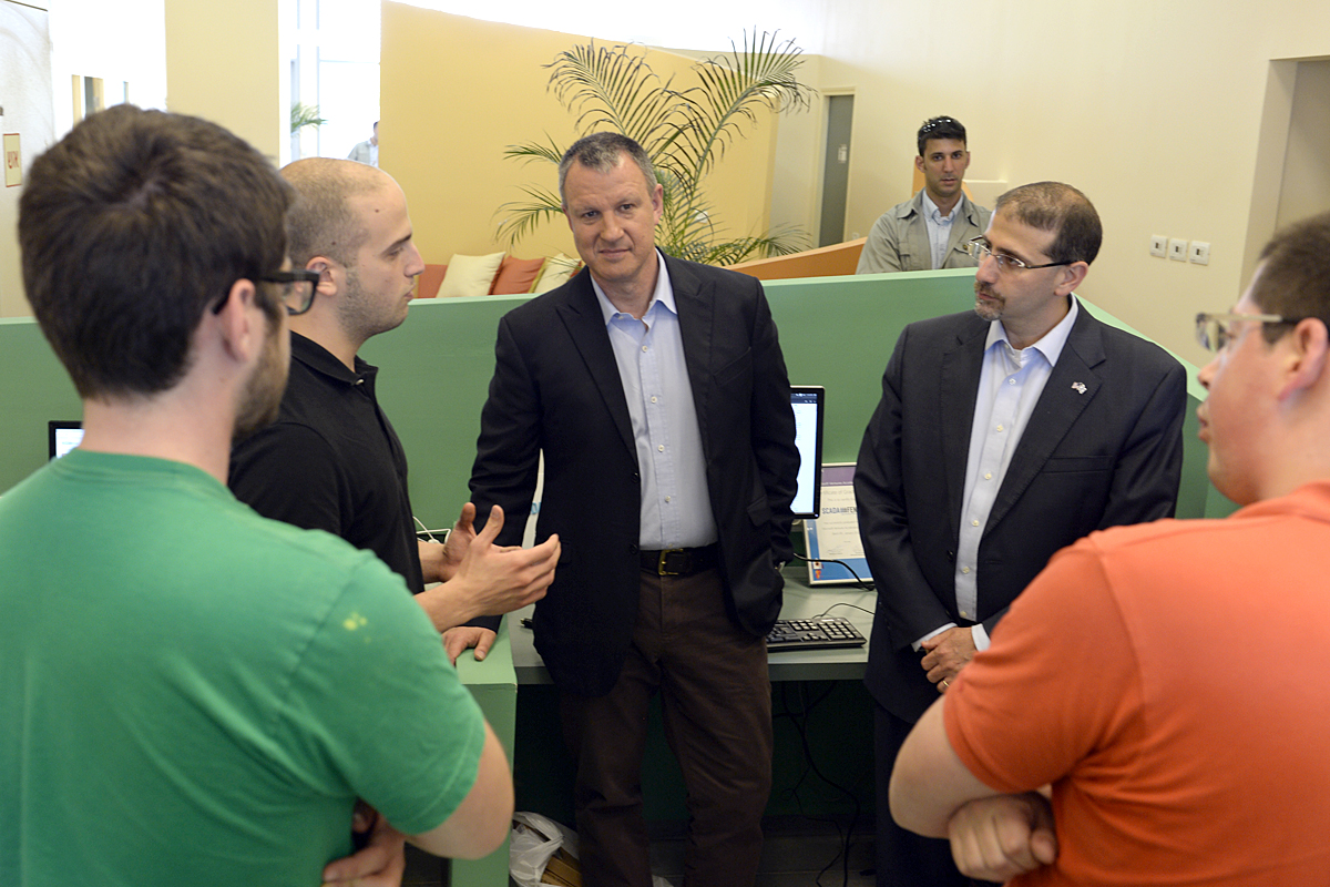 Ambassador Shapiro's trip to BeerSheba.